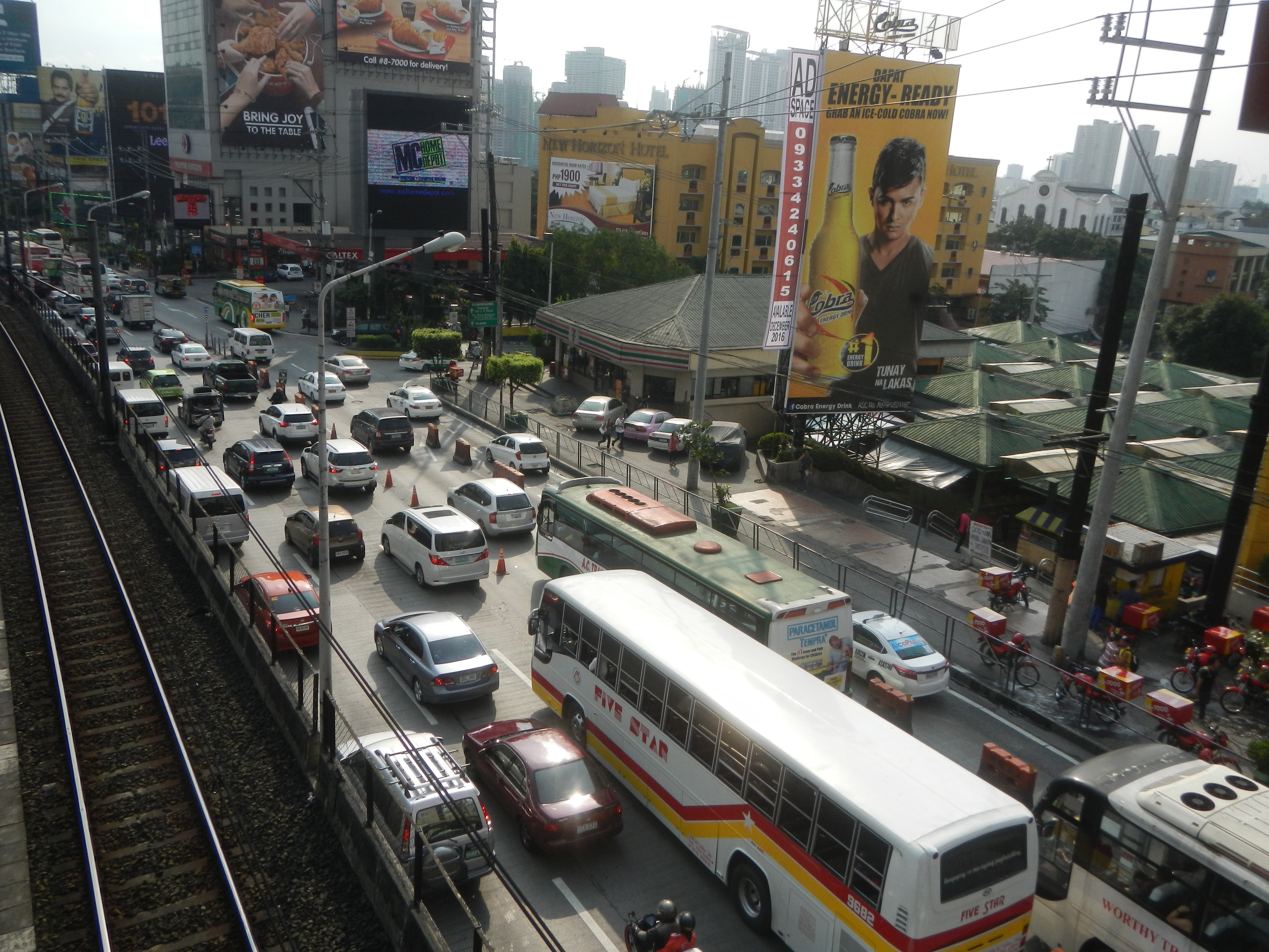 Light Mall - Light Residences SMDC (EDSA, Mandaluyong City) Light Residences 14°34'25"N 121°2'56"E SM Development Corporation 14°34'28"N 121°2'58"E Pioneer Woodlands 14°34'21"N 121°2'55"E Empire East Forum Robinsons Robinsons Place Pioneer 14°34'15"N 121°2'51"E Robinsons_Malls Robinsons Cybergate Mandaluyong City Boni MRT Station along EDSA (road) Epifanio de los Santos Avenue Highway 54, Boni Avenue and Pioneer Street Pioneer Bridge 15 metric tons load limit 6 meters length K0012+235+112 corner Sheridan Street 14°34'26"N 121°3'12"E in the List of barangays of Metro Manila, Barangay Barangaka Ilaya, beside Buayang Bato 14°34'10"N 121°2'57"E beside Highway Hills 14°34'47"N 121°3'3"E Mandaluyong City (Note: Judge Florentino Floro, the owner, to repeat, Donor Florentino Floro of all these photos hereby donate gratuitously, freely and unconditionally all these photos to and for Wikimedia Commons, exclusively, for public use of the public domain, and again without any condition whatsoever).